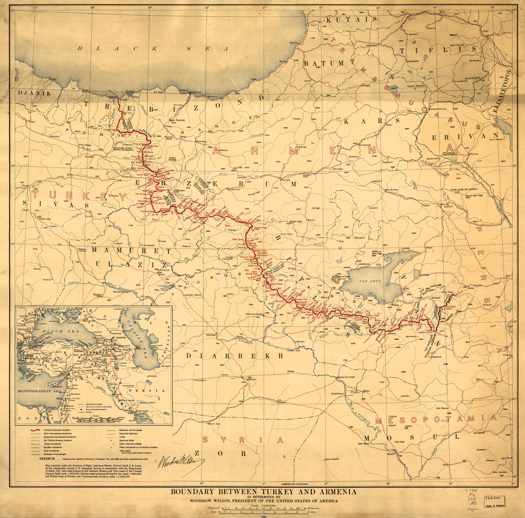 The disintegration of the Ottoman and Russian empires at the end of World War I gave birth to a number of new states. In May 1918, Eastern Armenia, formerly part of the Russian Empire, declared itself an independent republic. In April 1920, the victorious Allied Powers, dismantling the Ottoman Empire, directed that Western Armenia be attached to the new republic and appointed U.S. President Woodrow Wilson to arbitrate the boundary between Turkey (successor to the Ottoman Empire) and Armenia. In November 1920, Wilson set a boundary based on a variety of geographic, demographic, ethnic, and historical factors. This map, compiled under the direction of the U.S. Army by the Topographic Branch of the U.S. Geological Survey, shows Wilson’s award. However, the Treaty of Sevres that provided for an independent Armenia and recognized Wilson’s arbitration was never ratified. Turkish nationalists under Mustafa Kemal overthrew the Turkish monarchy, established a republic, and invaded Armenia, eventually forcing it to relinquish much of the territory that Wilson’s arbitration had awarded to the new country. Russian Bolshevik forces also invaded Armenia and incorporated what was left of the Armenian Republic into the new Soviet Union. Boundaries; Wilson, Woodrow, 1856-1924